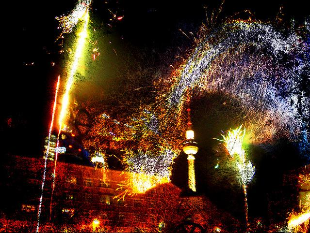 A photo of a magnificent firework in German capital. Very amazing.